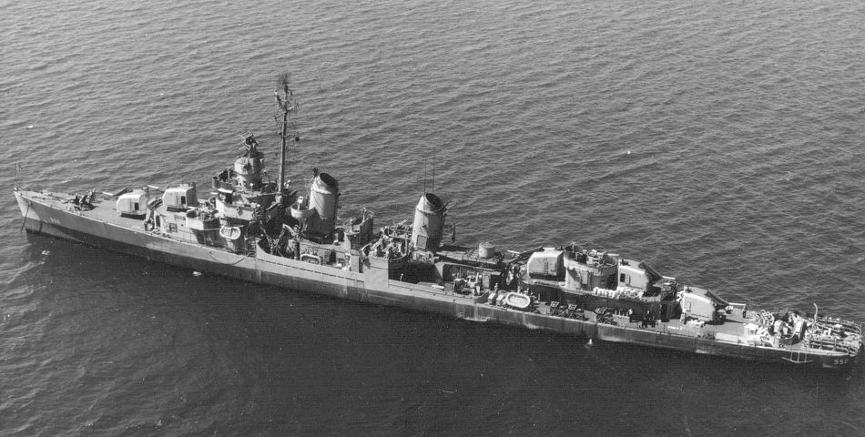 The U.S. Navy destroyer USS Capps (DD-550) off San Pedro, California (USA), on 12 September 1945.